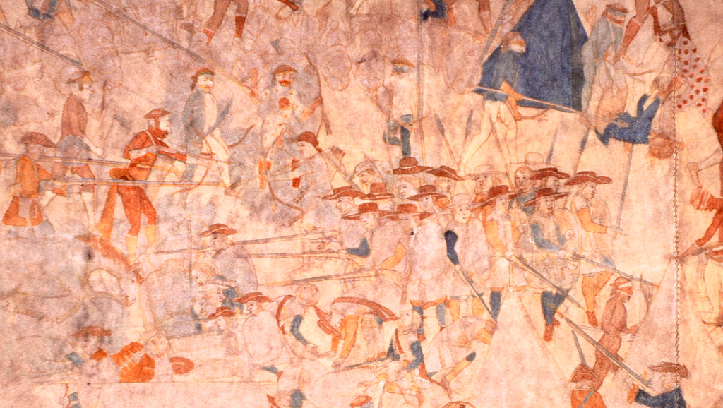 Detail of hide painting sent to Switzerland from Sonora, Mexico in 1758 by Philipp Segesser (1 September 1689 - 28 September 1762). Assumed to represent the 1720 defeat of the Villasur expedition. Supposedly lying dead to the left in a red coat is Pedro de Villasur himself.